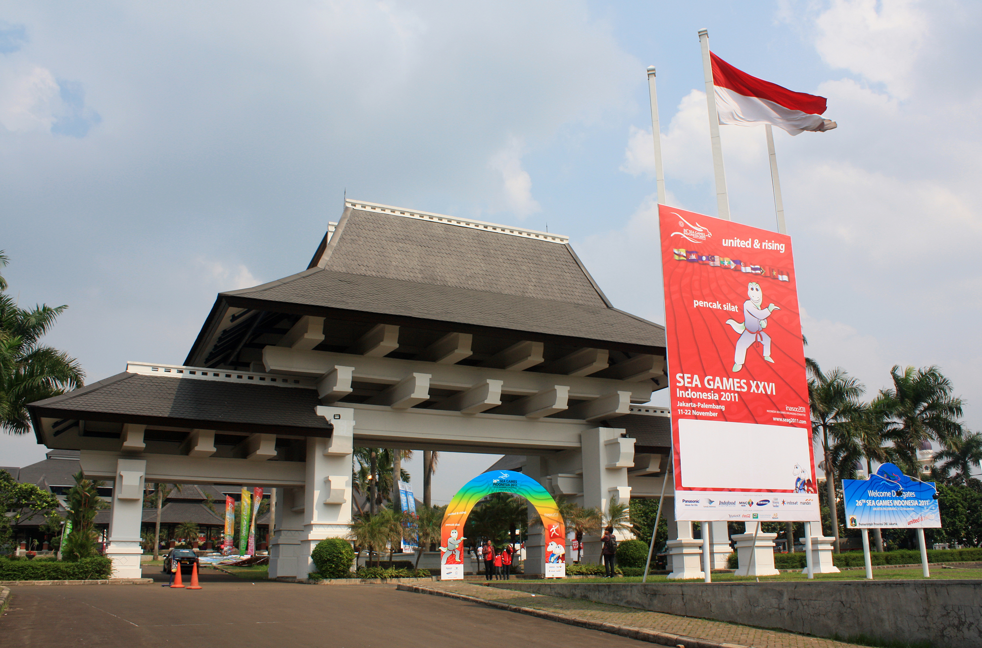 The main entrance of Padepokan Pencak Silat (Pencak Silat center) in Taman Mini Indonesia Indah complex, East Jakarta. The main venue of Pencak Silat matches during 26th Southeast Asian Games Indonesia 2011.